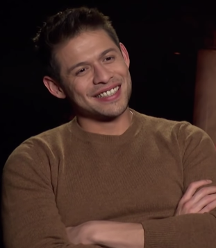 David Castañeda in a 2019 MTV interview